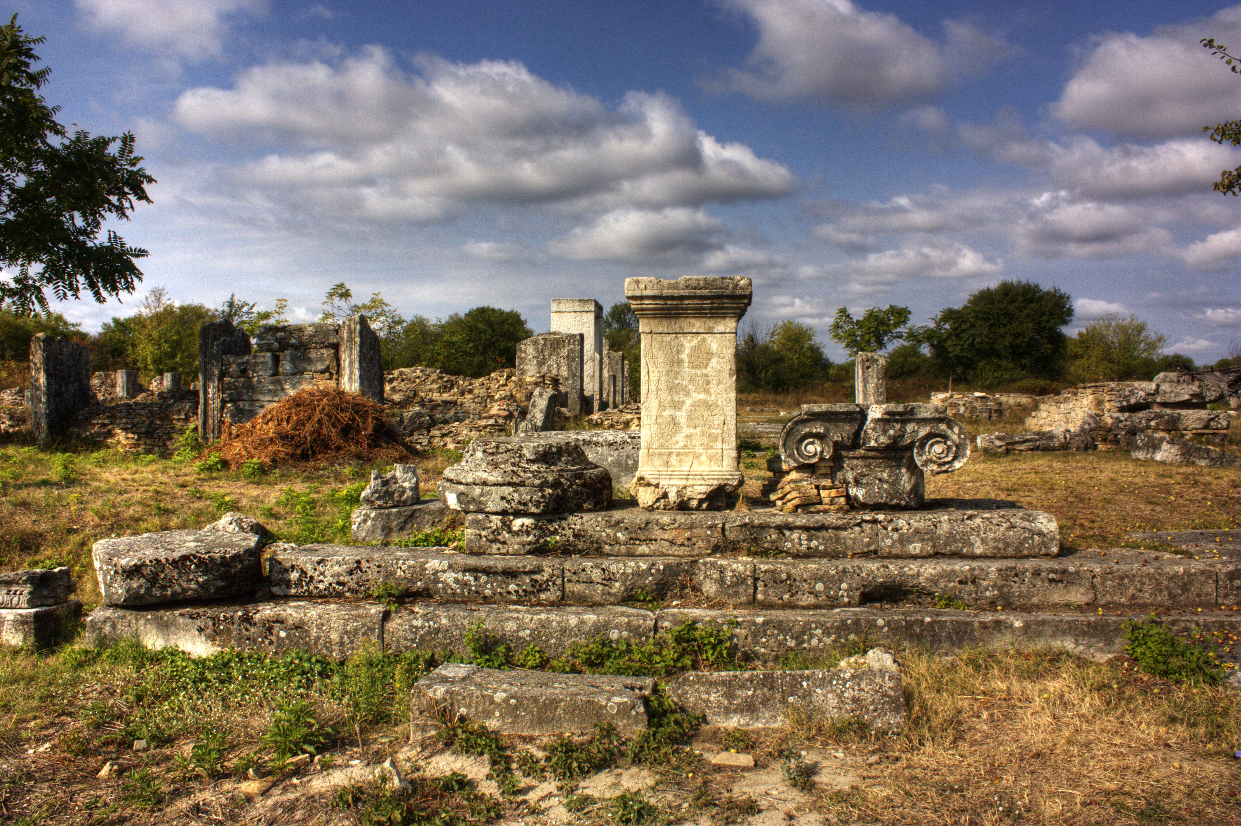 Nicopolis ad Istrum was a Roman and Early Byzantine town founded by Emperor Trajan around 101-106, at the junction of the Iatrus (Yantra) with the Danube, in memory of his victory over the Dacians. Nikopolis ad Istrum - Part 1 Nikopolis ad Istrum - Part 2 Nikopolis ad Istrum - Part 3 Reached #412 in Explore...